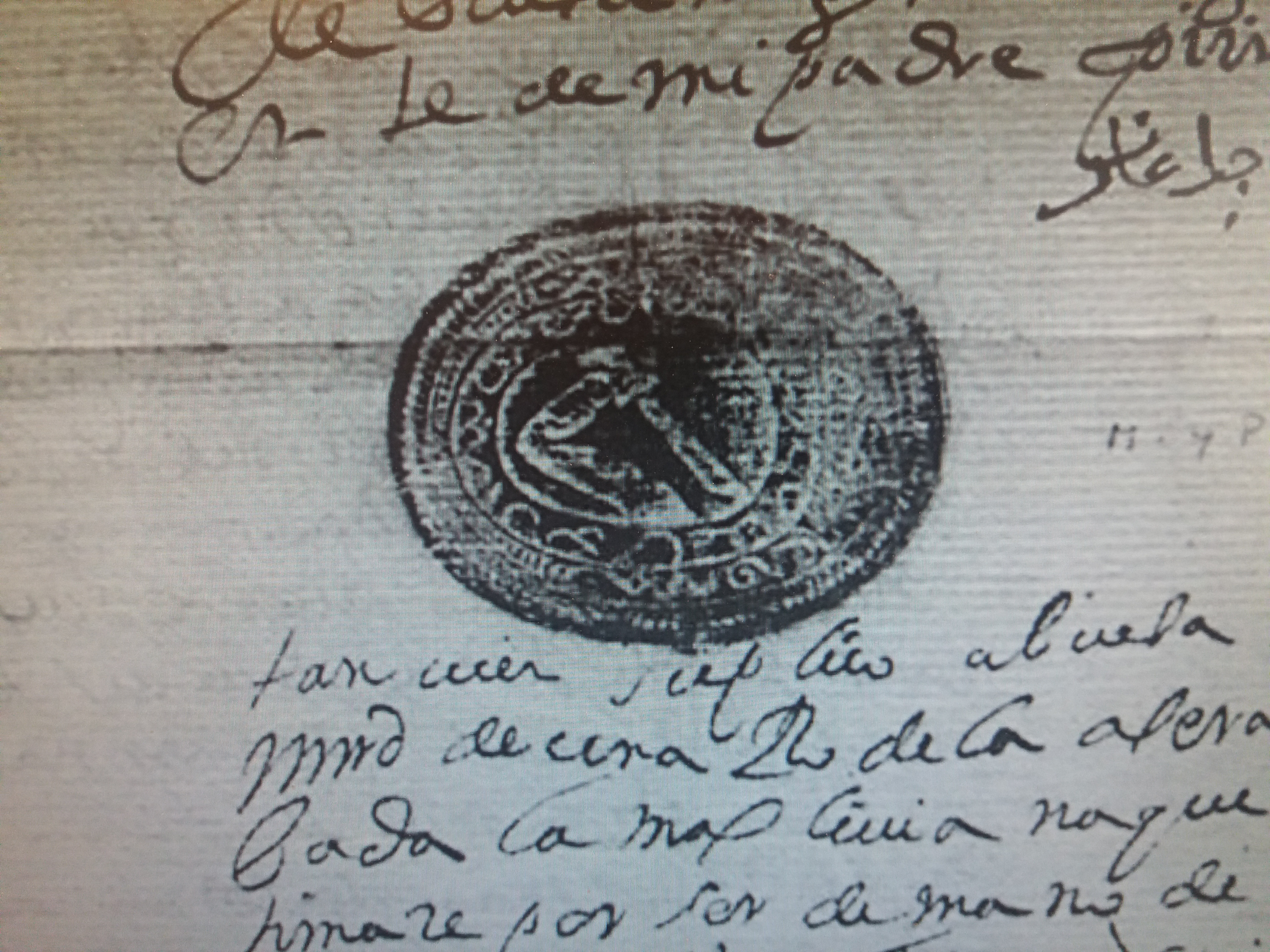 Seal of Prince Ngaro showing an arm holding a klewang, from a letter in Spanish from 1617.